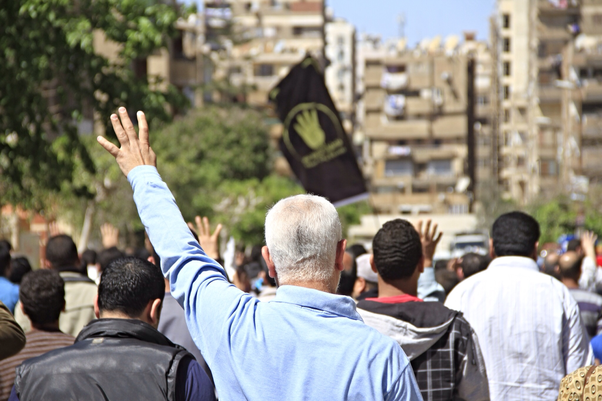 Original description: "Protesters march through Cairo holding up four-fingers, a hand sign in memory of last year's deadly crackdown on supporters of ousted President Mohamed Morsi, March 28, 2014. (Hamada Elrassam/VOA)"